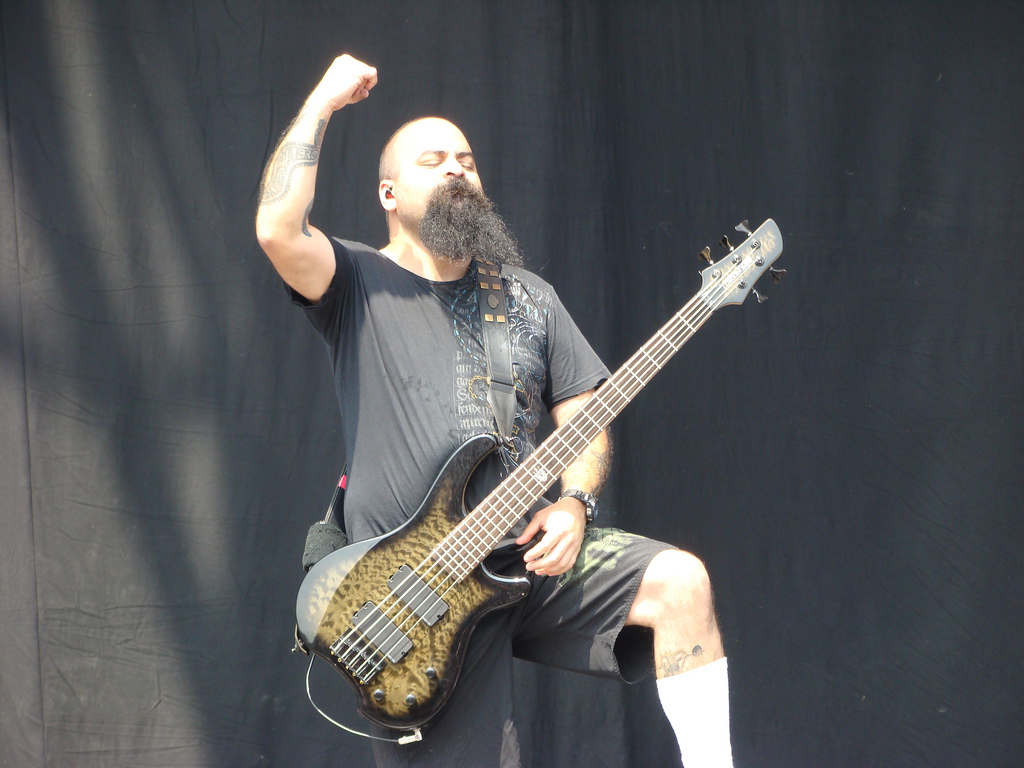 Tony Campos live on bass